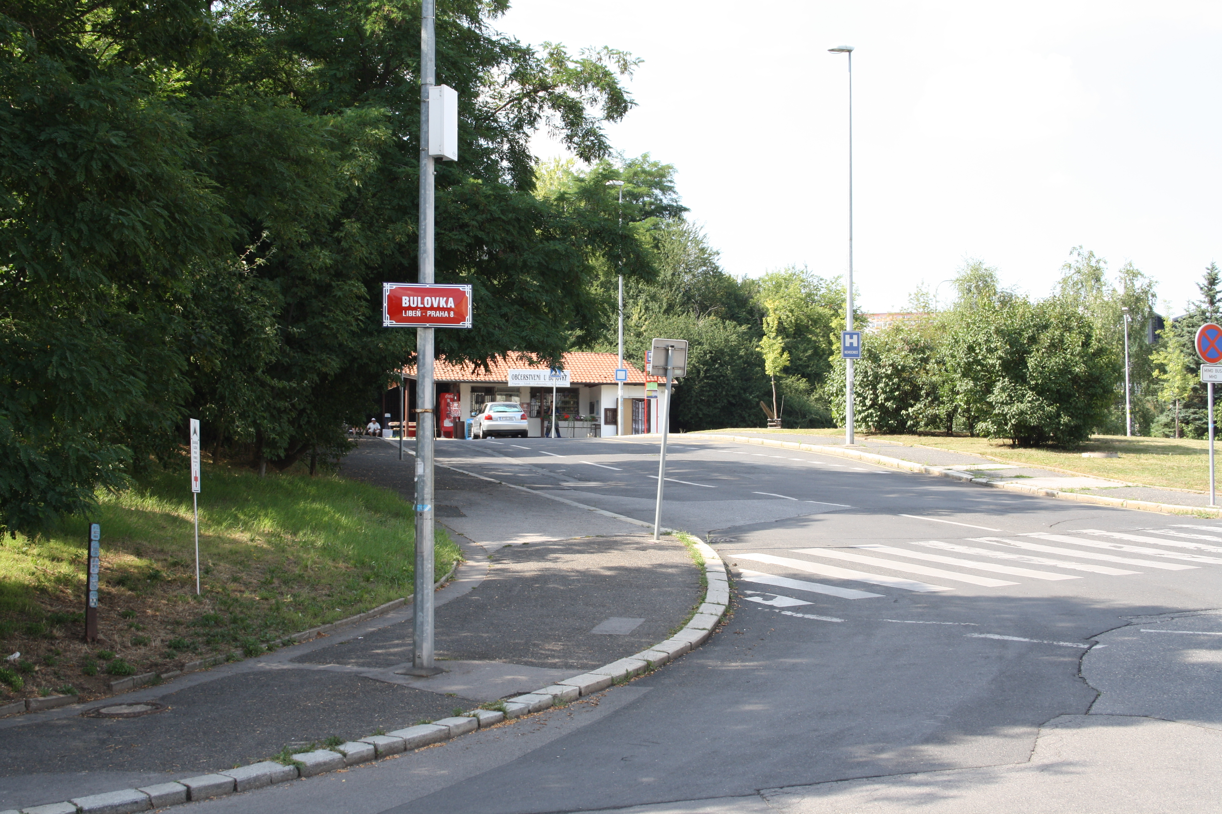 Prague Liben, crossing Bulovka x Budinova